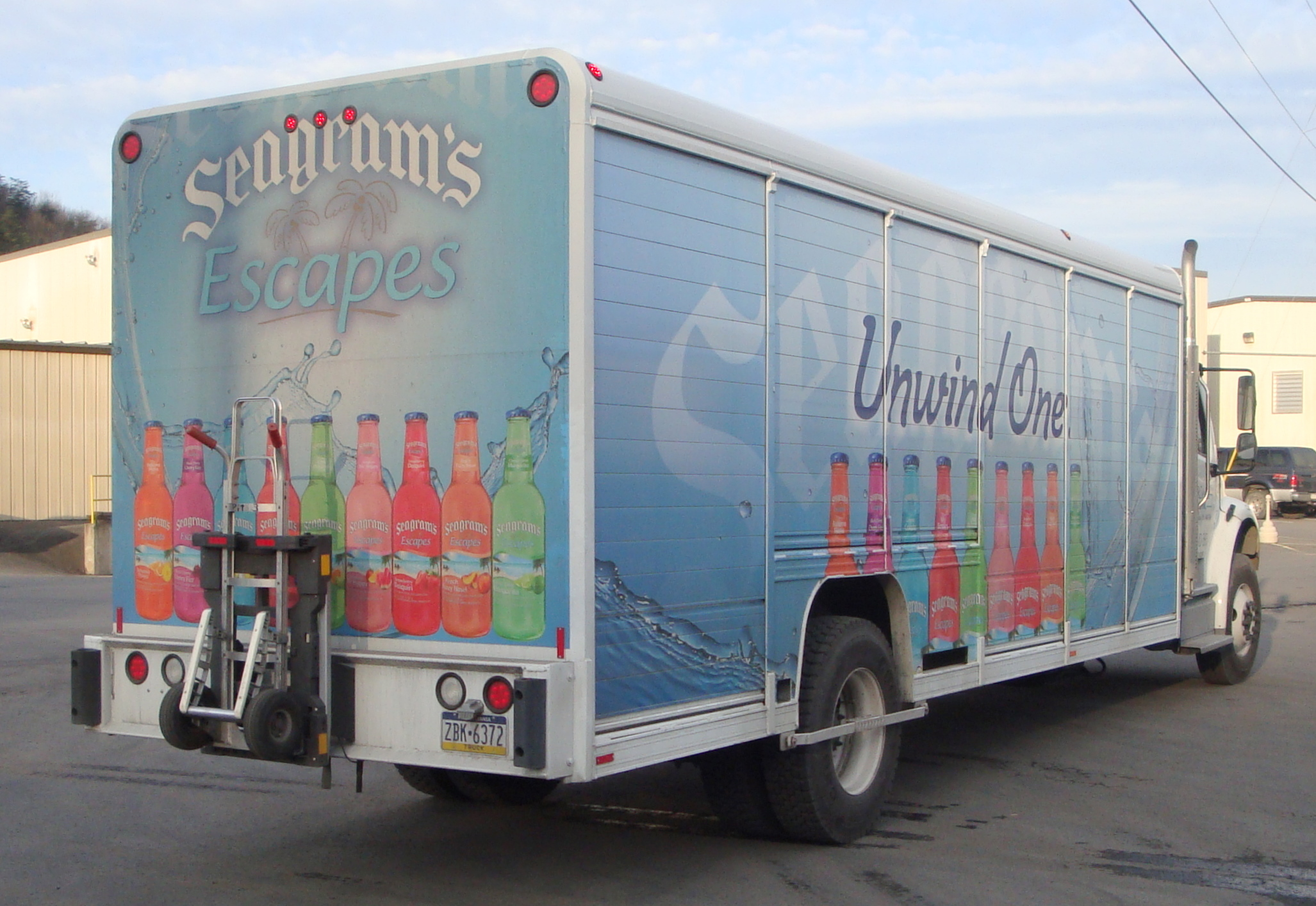 Durdach Bros. Inc. of Paxinos, Pennsylvania beverage truck with HTS Systems' HTS-30D Ultra-Rack Hand Truck Sentry System. B&P Liberator beverage hand truck locked safely aboard for travel.